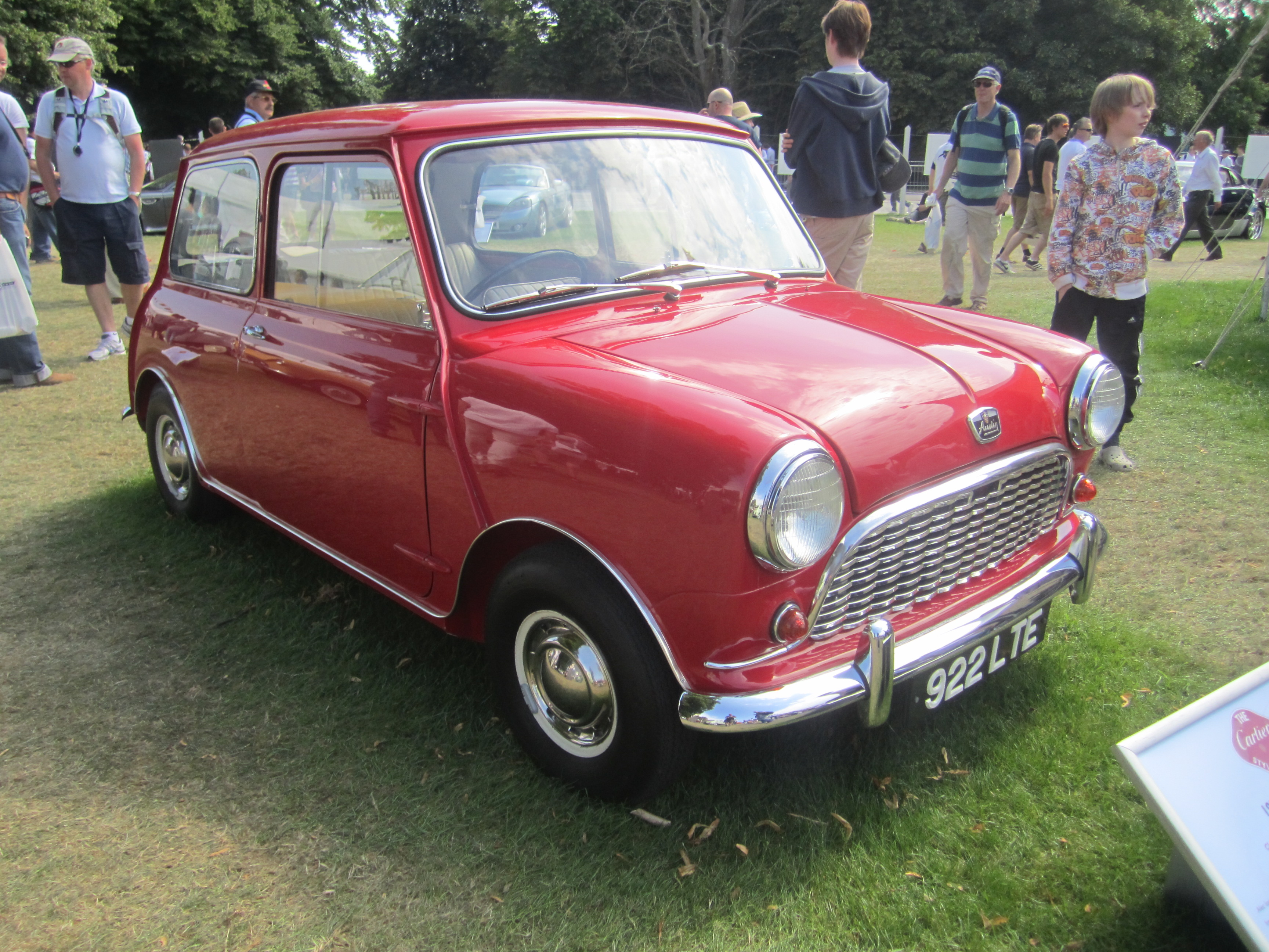 The Mk I Mini built from 1959-67, also Cooper & Cooper S. Available in 2 door saloon, estate, van, pickup & Moke. Engines; 850, 1000, 1100 & 1275 4 cyl Taken at the Goodwood Festival of Speed England 2011-Cartier Style Et Luxe Concours D'elegance